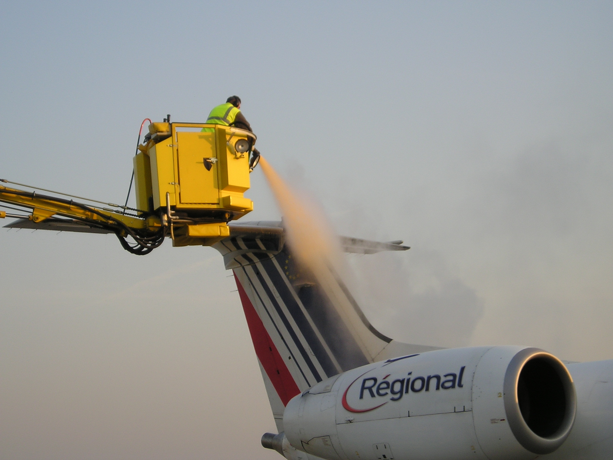 One step procedure with Type I fluid